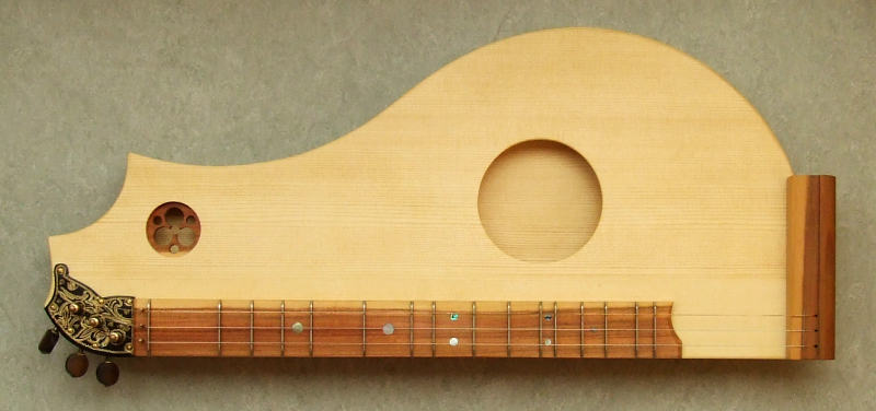 The Raffele is a predecessor of the modern concert cither and is still common in the European Alpine regions (parts of Bavaria, Tyrol, Northern Italy). This Raffele has been built by Robert Grasser in 2013.